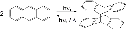 Photodimerization of Anthracene